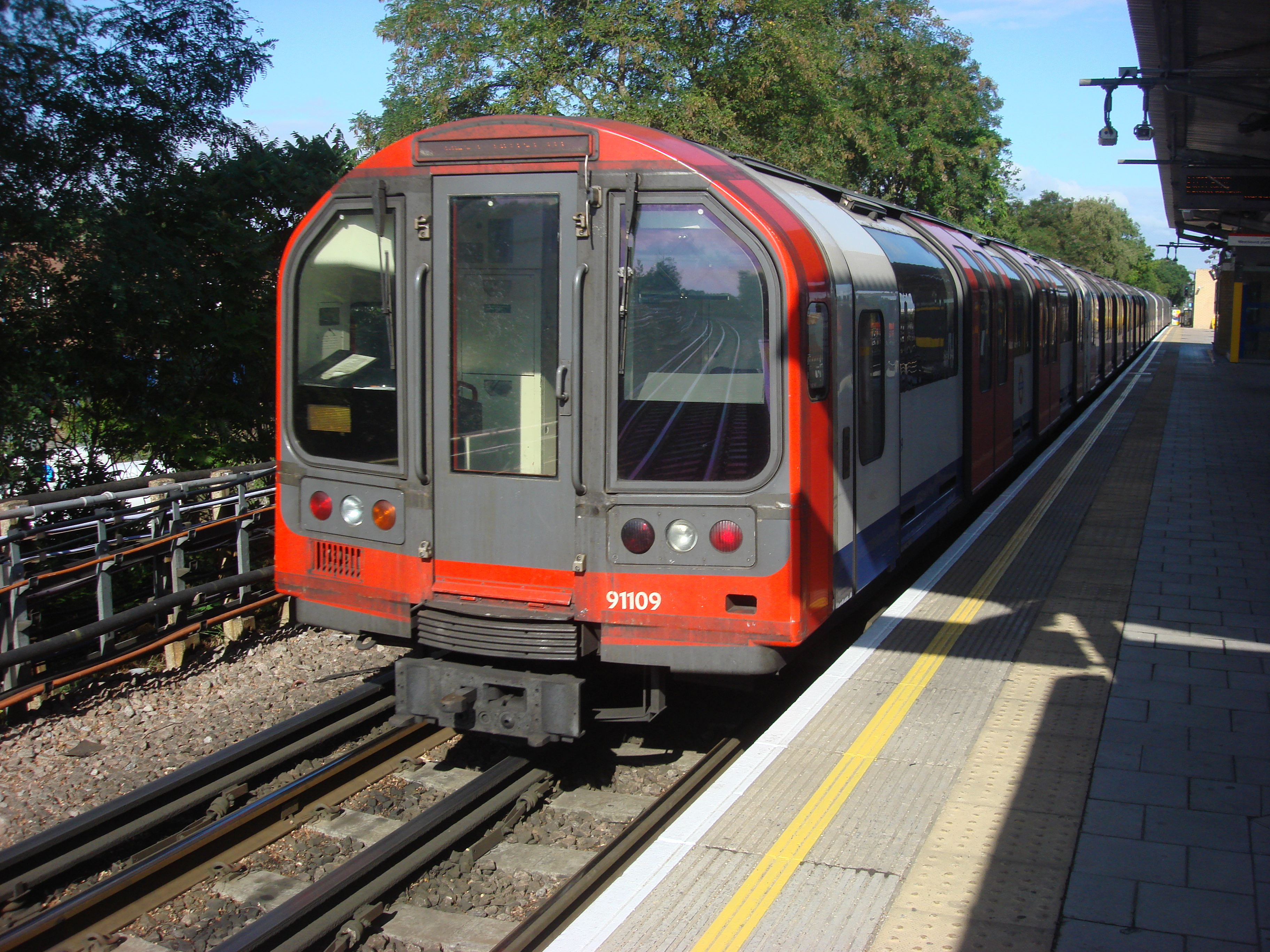 South Ruislip station.